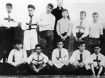 One of the first football teams of C.A. San Isidro, wearing the white jersey with a red cross.